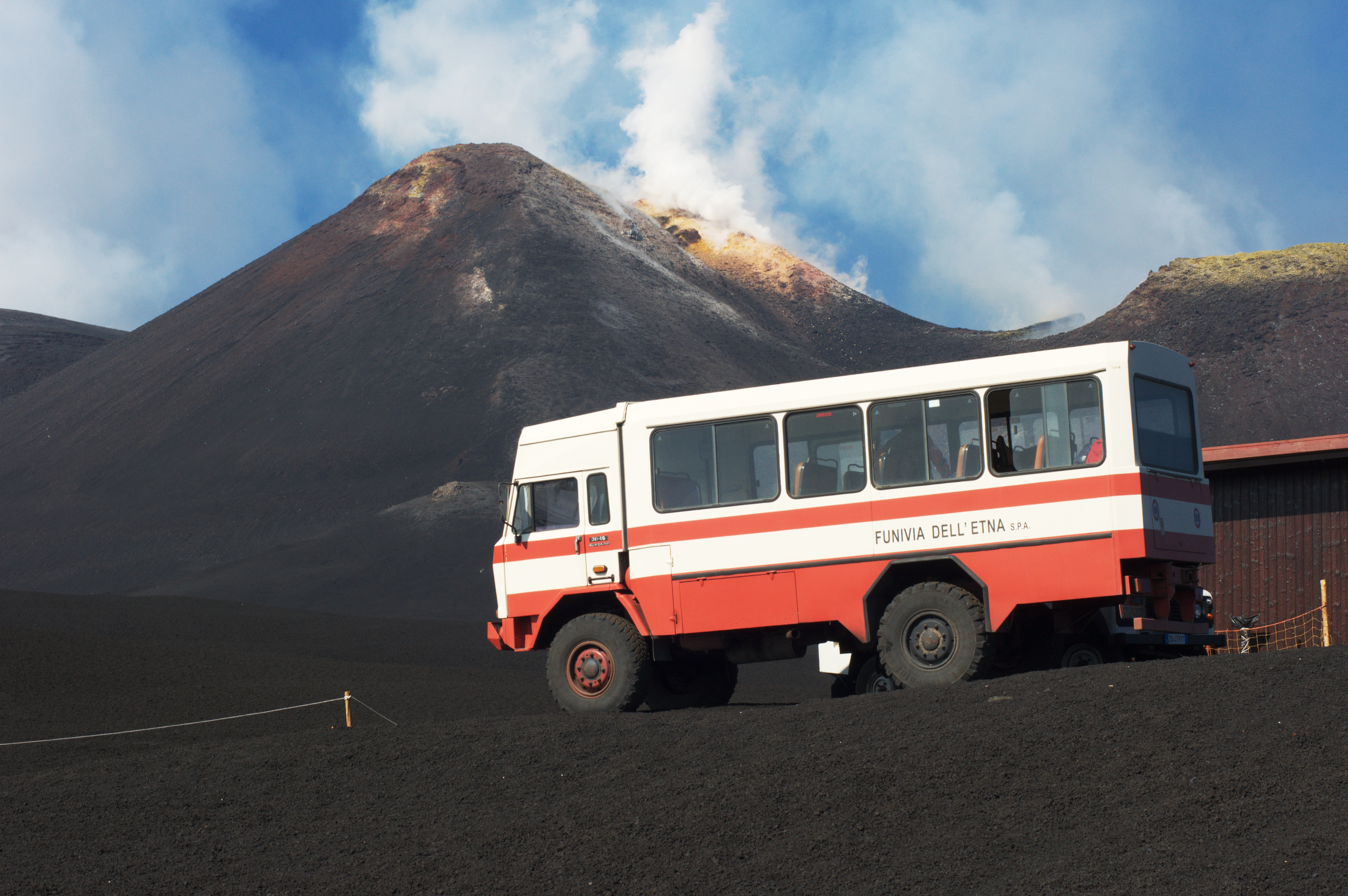 All-terrain bus on Mount Etna